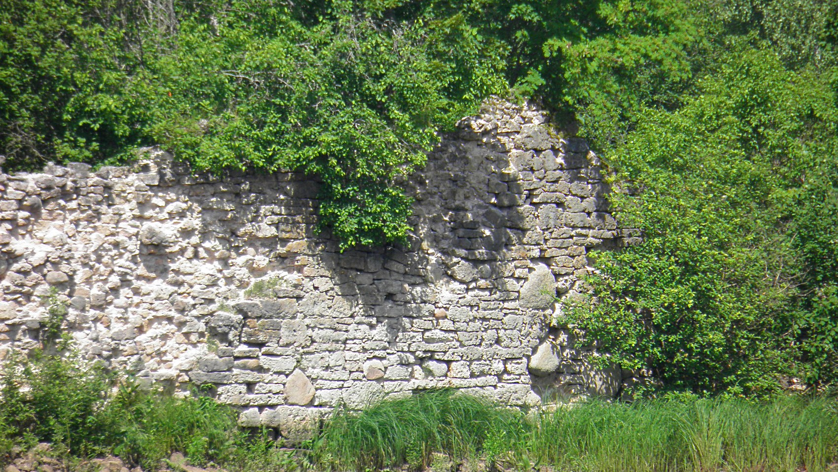 Sēlpils Castle ruins